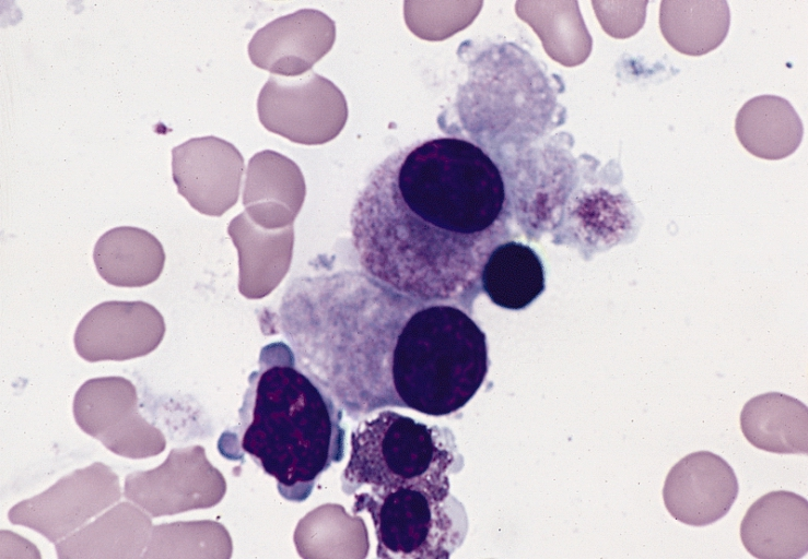 BONE MARROW: ABNORMAL MEGAKARYOCYTES IN A MYELODYSPLASTIC SYNDROME Bone marrow smear from a patient with RAEB and an isolated 5q-chromosome abnormality showing two small megakaryocytes with nonlobulated nuclei. The cytoplasm is well granulated. (Wright-Giemsa stain)